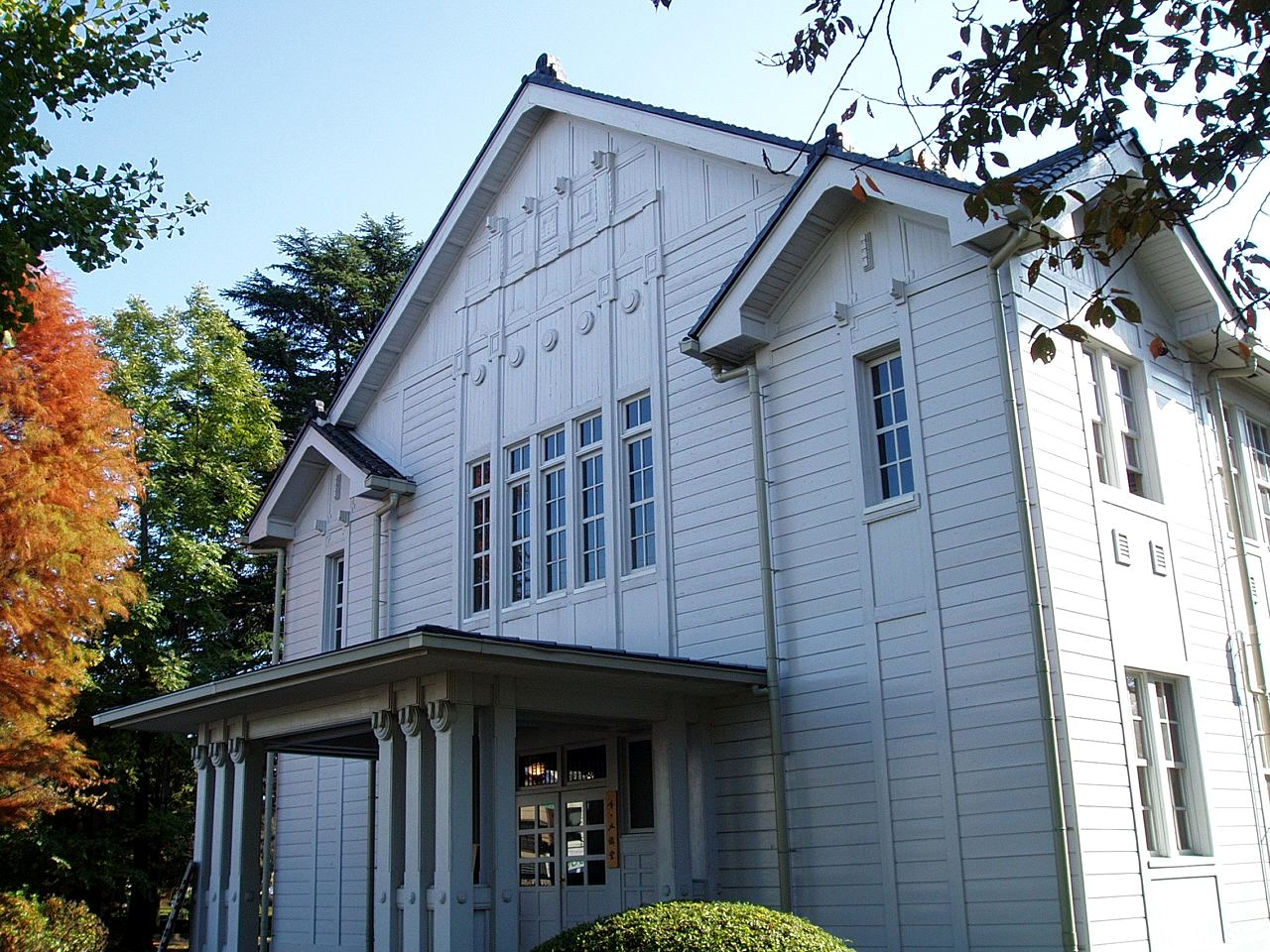 Minegaoka Auditorium of Utsunomiya University. Built in 1924 as the auditorium of Utsunomiya College of Agriculture and Forestry. Repaired in 2009.